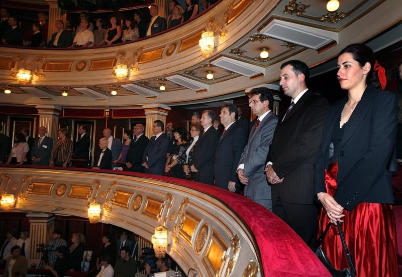 40th anniversary of Mathematical Gymnasium Belgrade. Prime Minister, Belgrade Mayor, Ministers and members of the Government, Ambassadors, all former Principals and Directors, businessmen, etc. 500 guests.